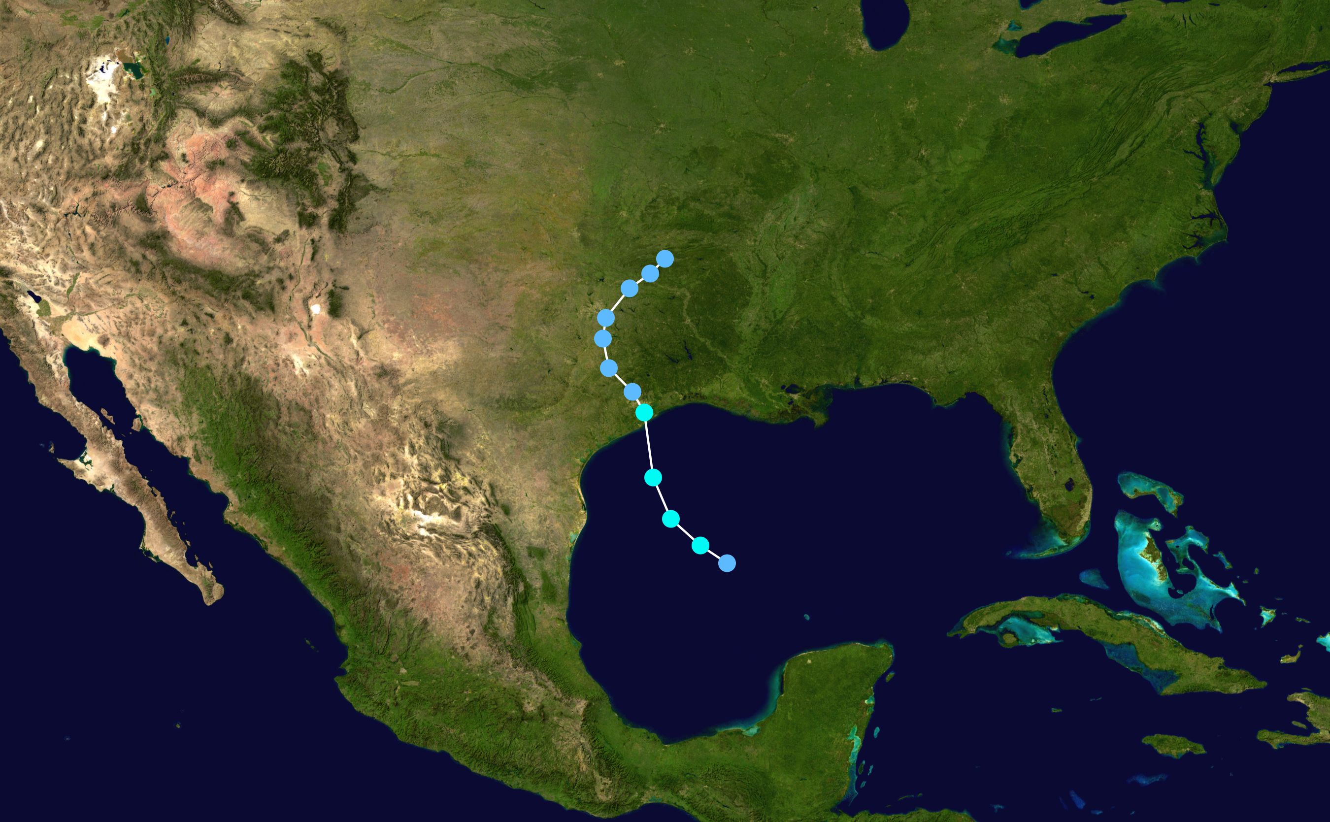 Track map of Tropical Storm Grace of the 2003 Atlantic hurricane season. The points show the location of the storm at 6-hour intervals. The colour represents the storm's maximum sustained wind speeds as classified in the Saffir–Simpson scale (see below), and the shape of the data points represent the nature of the storm, according to the legend below. Saffir–Simpson scale Tropical depression≤38 mph≤62 km/h Category 3111–129 mph178–208 km/h Tropical storm39–73 mph63–118 km/h Category 4130–156 mph209–251 km/h Category 174–95 mph119–153 km/h Category 5≥157 mph≥252 km/h Category 296–110 mph154–177 km/h Unknown Storm type Tropical cyclone Subtropical cyclone Extratropical cyclone / Remnant low / Tropical disturbance / Monsoon depression